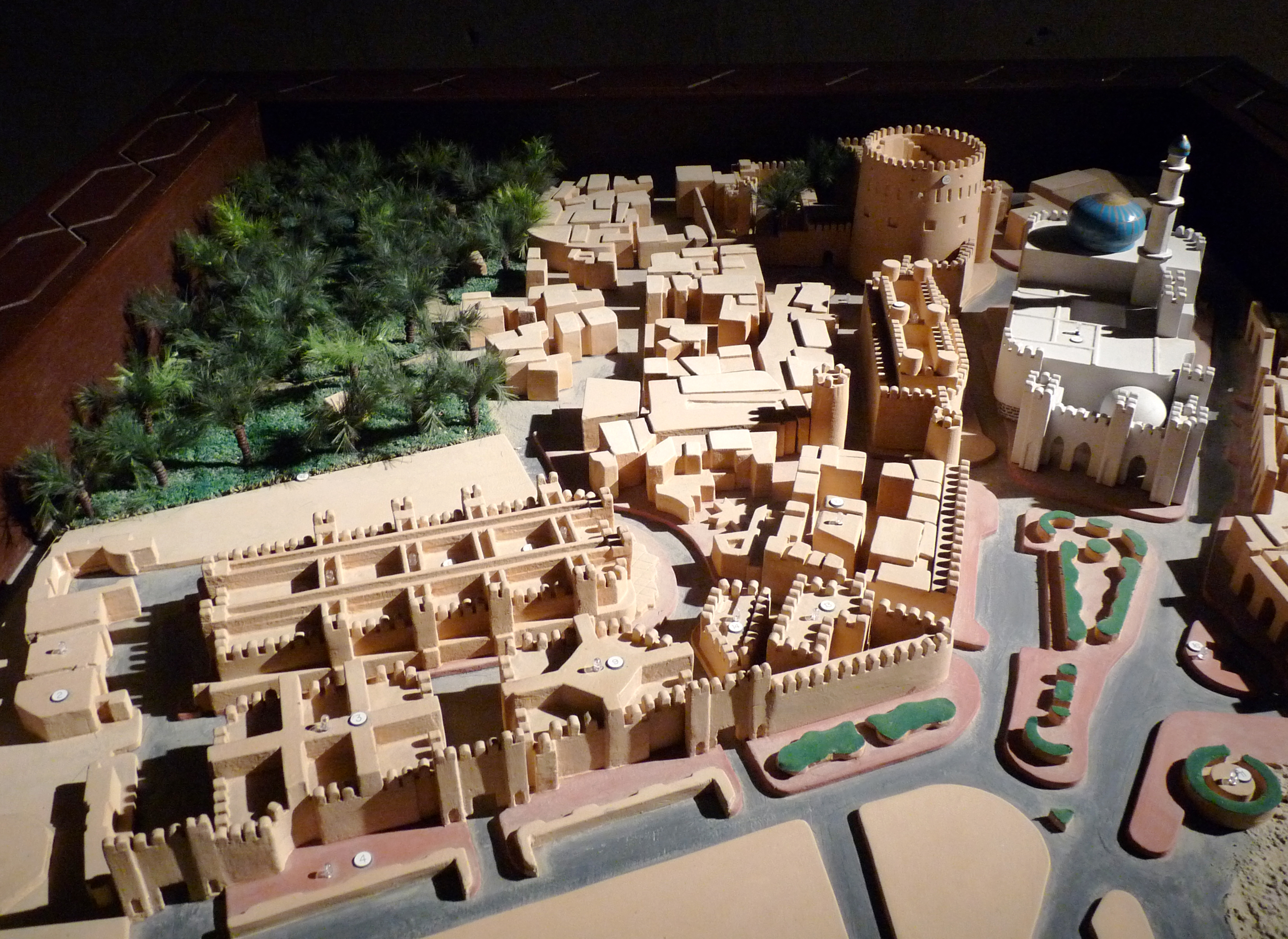 Model of Nizwa fort and mosque